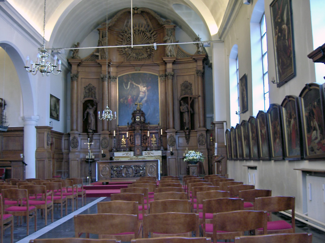 High altar of the Kapucijnenkerk; Ostend, Belgium